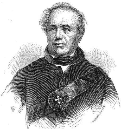 "Rev. Eleazer Williams. From a Daguerreotype.